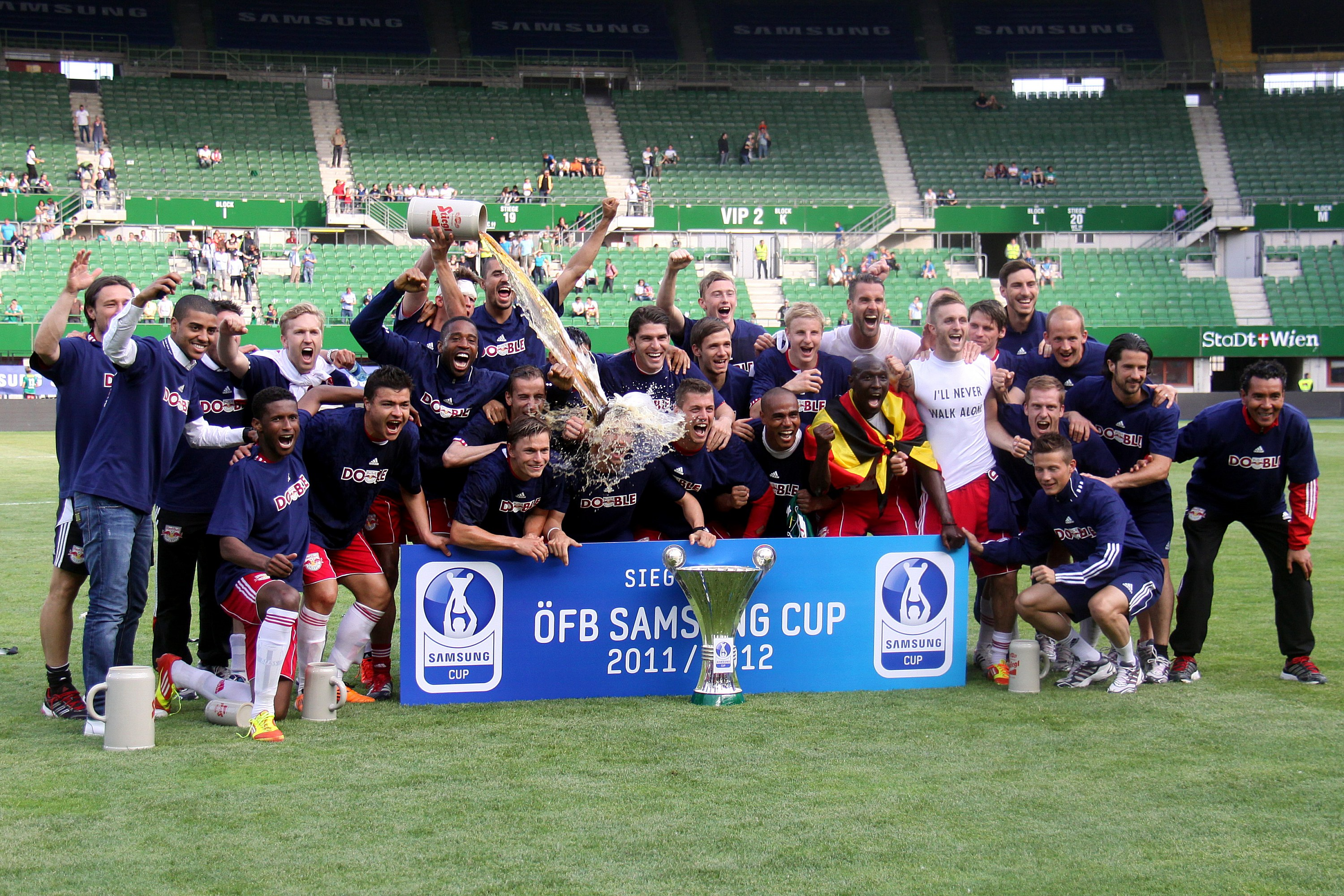 Final of the 2011–12 Austrian Cup FC Red Bull Salzburg vs. SV Ried at 2012-05-20 in the Ernst-Happel-Stadion, Vienna 3:0 (2:0). Object location48° 12′ 25.8″ N, 16° 25′ 15.42″ E